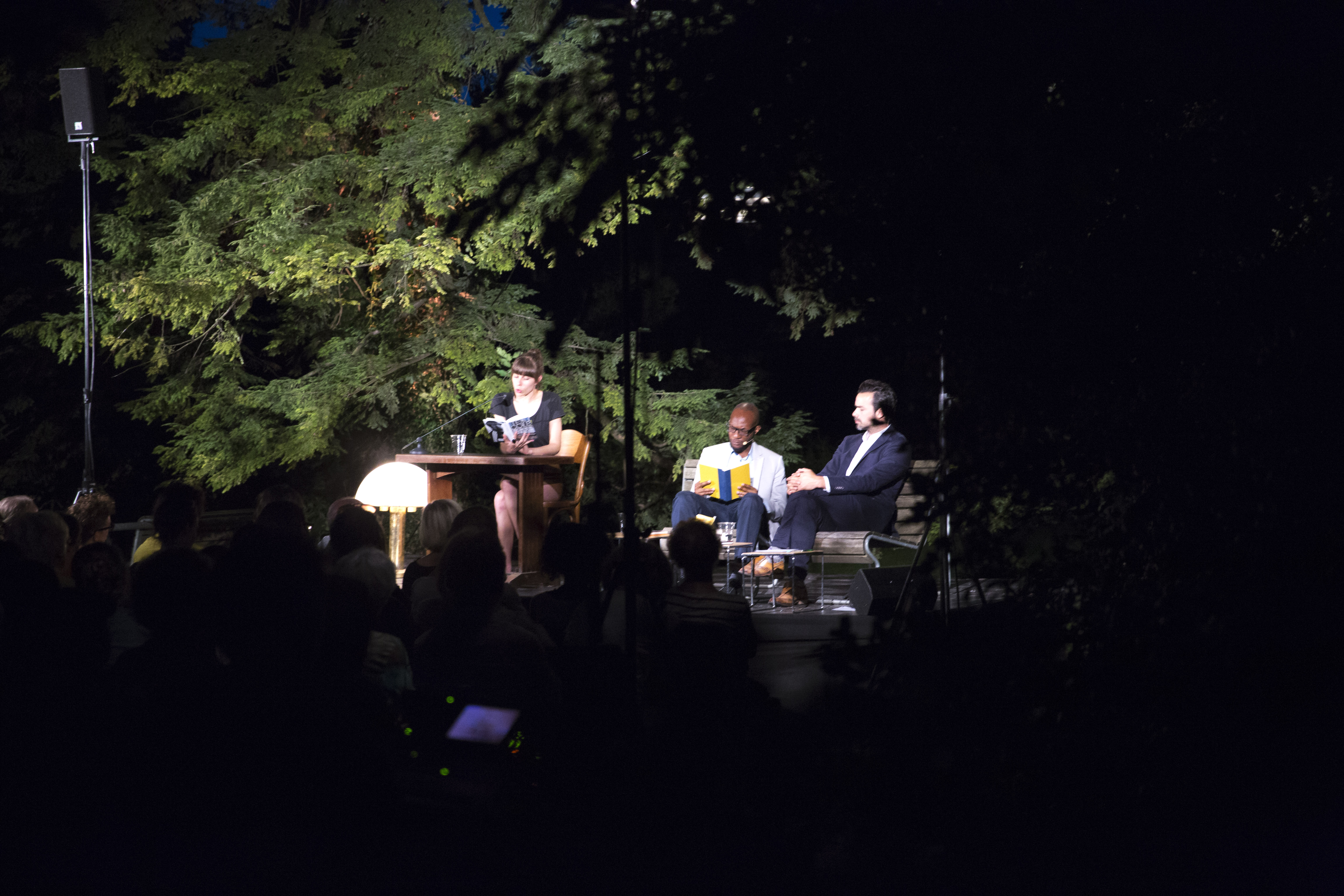 Openair Literatur Festival Zurich in the Old Botanical Garden, Reading with Teju Cole, 2014